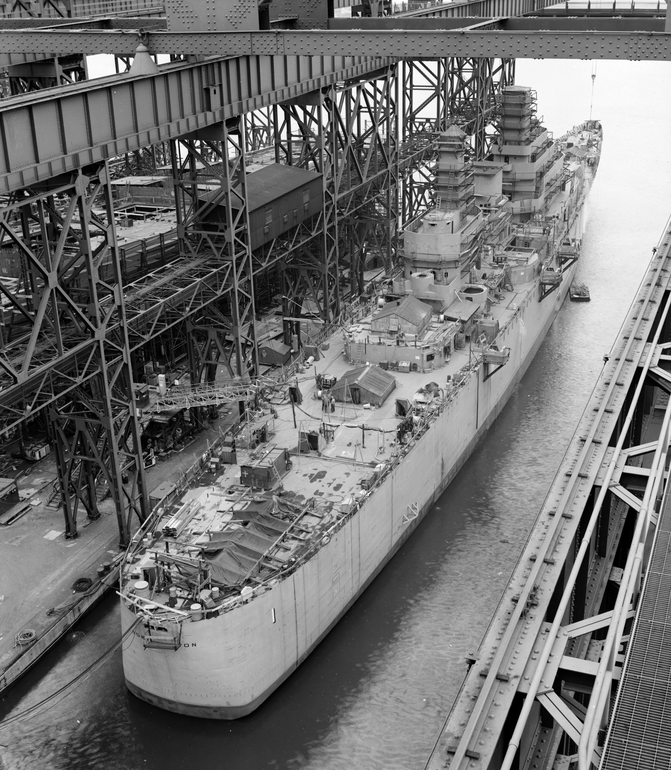 The U.S. Navy command shipp USS Northampton (CLC-1) at the Bethelhem Steel Fore River Shipyard in Quincy, Massachusetts (USA), on 28 December 1951.